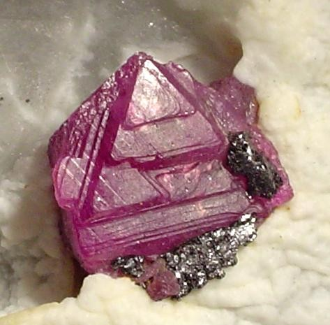 Corundum (Var.: Ruby), Scapolite Locality: Mogok, Pyin Oo Lwin District, Mandalay Division, Burma (Myanmar) (Locality at ) Size: 3.9 x 2.7 x 2.6 cm. A beautiful, sharp, gemmy and lustrous, 1.0 cm ruby crystal set in a vug in starkly contrasting marble and accented with scapolite crystals. This superb ruby has textbook, octahedral form, a riveting, stepped-growth face and vivid, magenta color. A classic ruby specimen from Mogok.